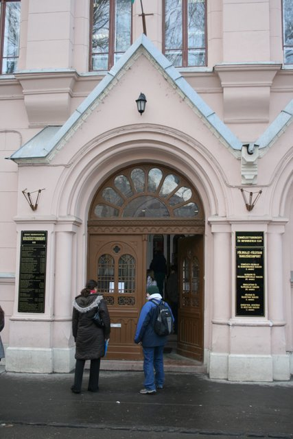 Faculty of Arts Gate II. Szeged